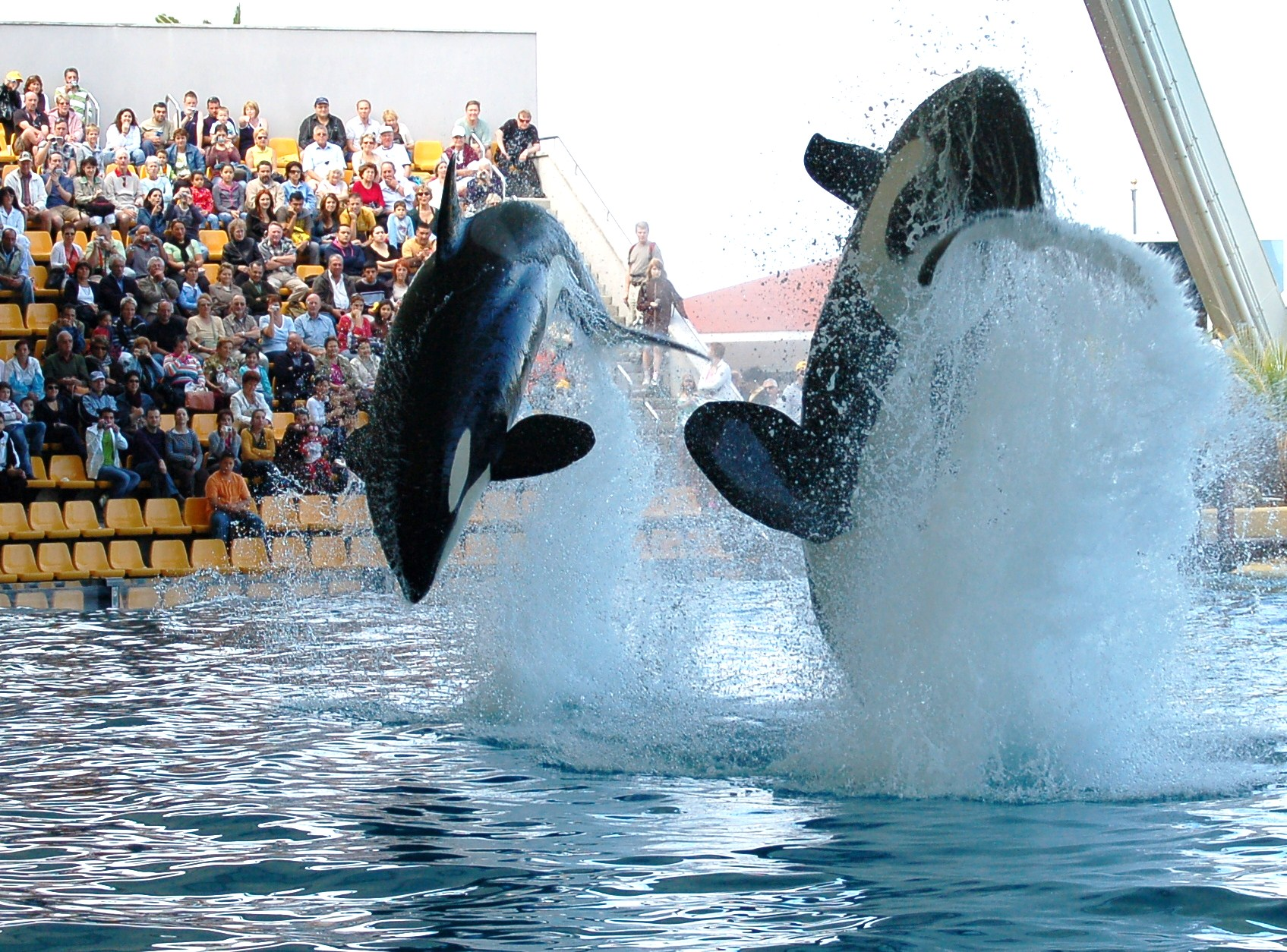 Loro Parque, Puerto de la Cruz, Tenerife